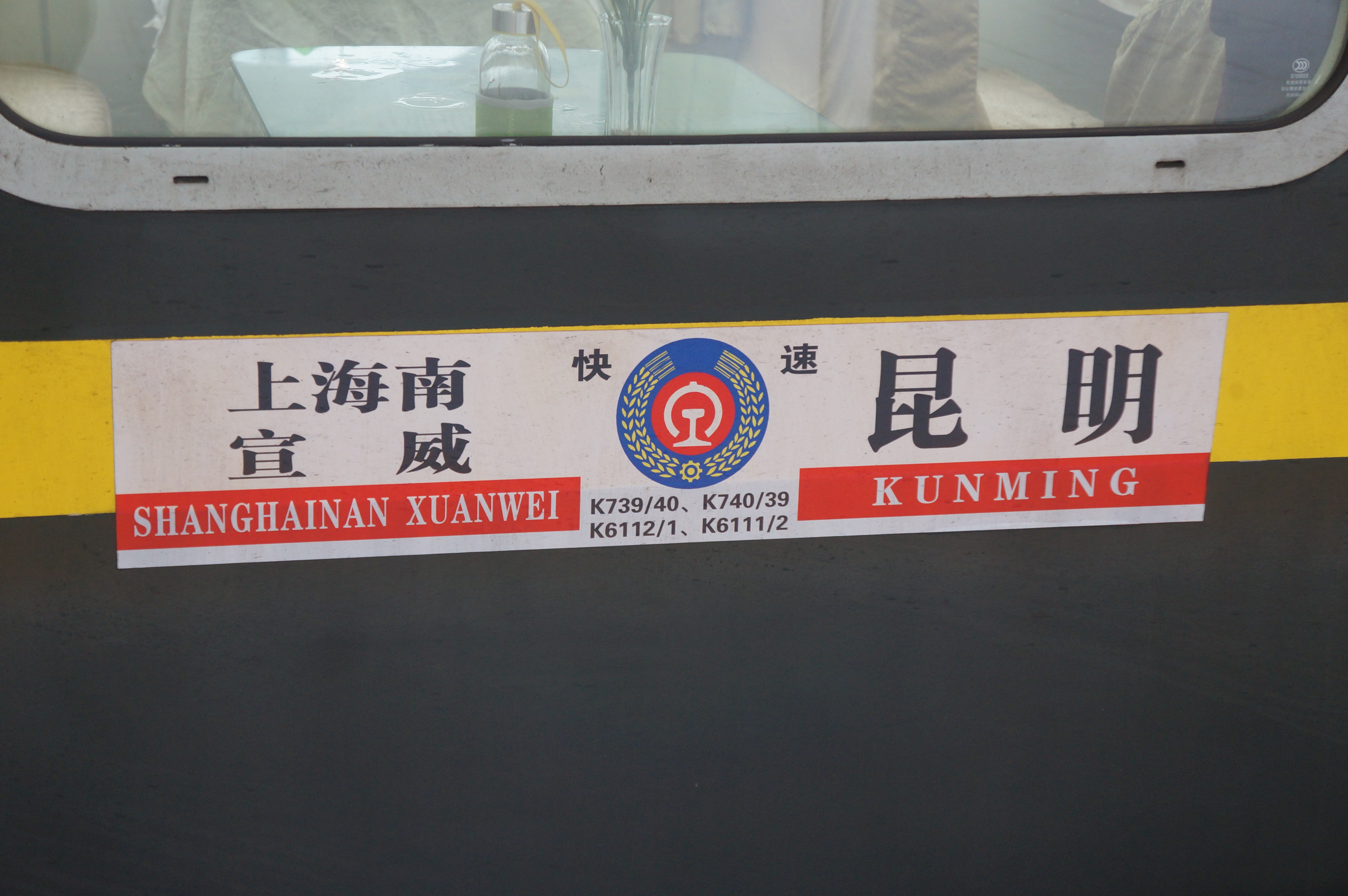 Rushed to Platform 4 to get it.